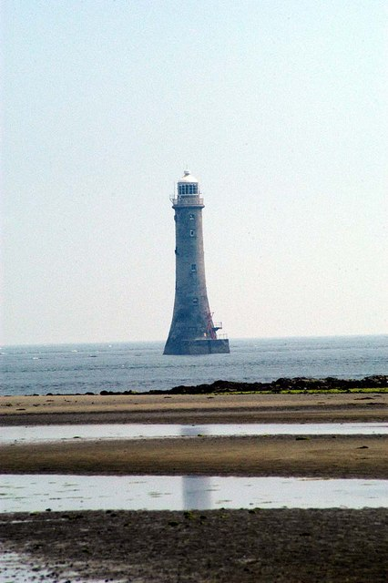 Cranfield Point Lighthouse Cranfield Point Lighthouse, guarding the entrance to Carlingford Lough